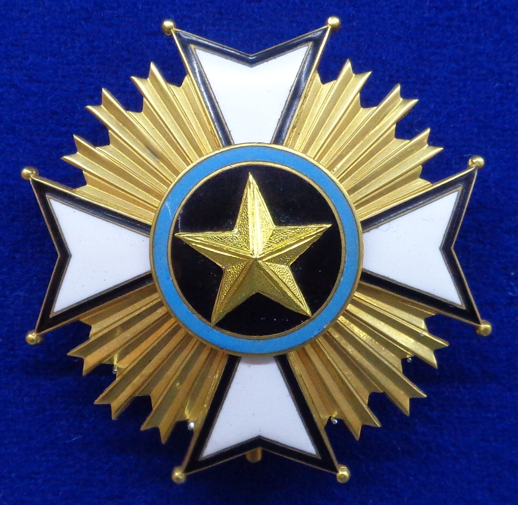 Order of Merit, star. Central African Republic. The exhibition of the Tallinn Museum of Orders of Knighthood, Estonia.